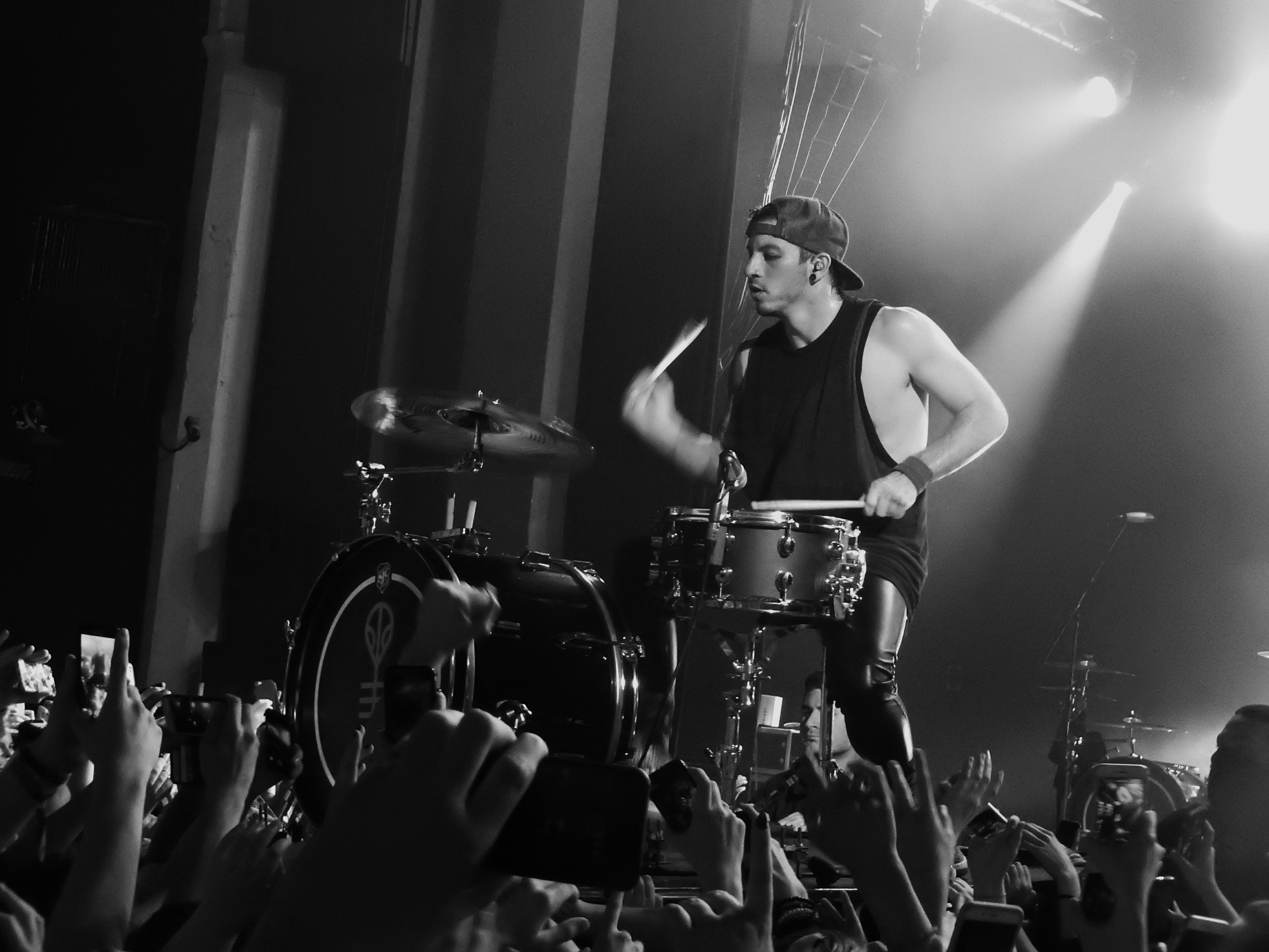 Twenty One Pilots, Shepherds Bush Empire, London